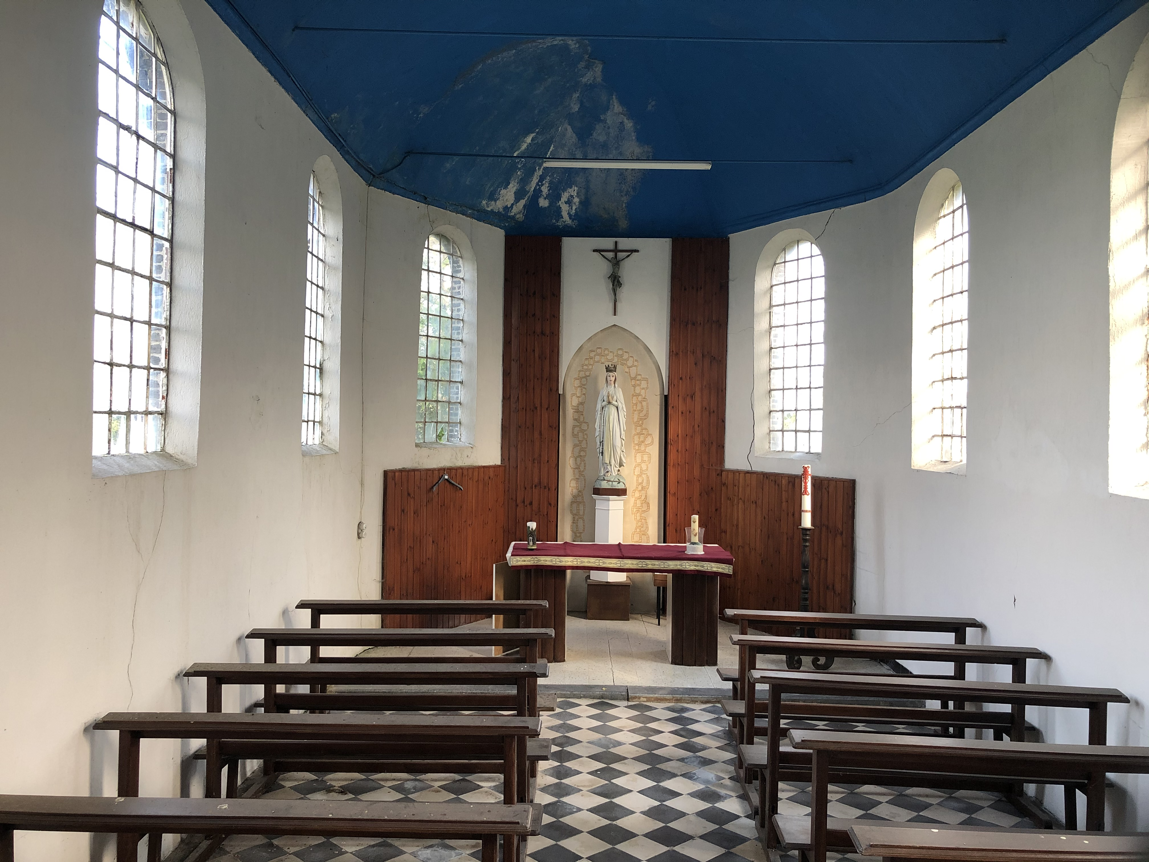 Interiour of the Veldkantkapel in Grimbergen (Belgium) on 2020-04-12